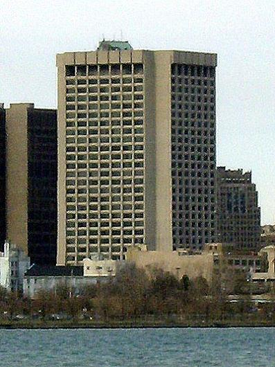 self made